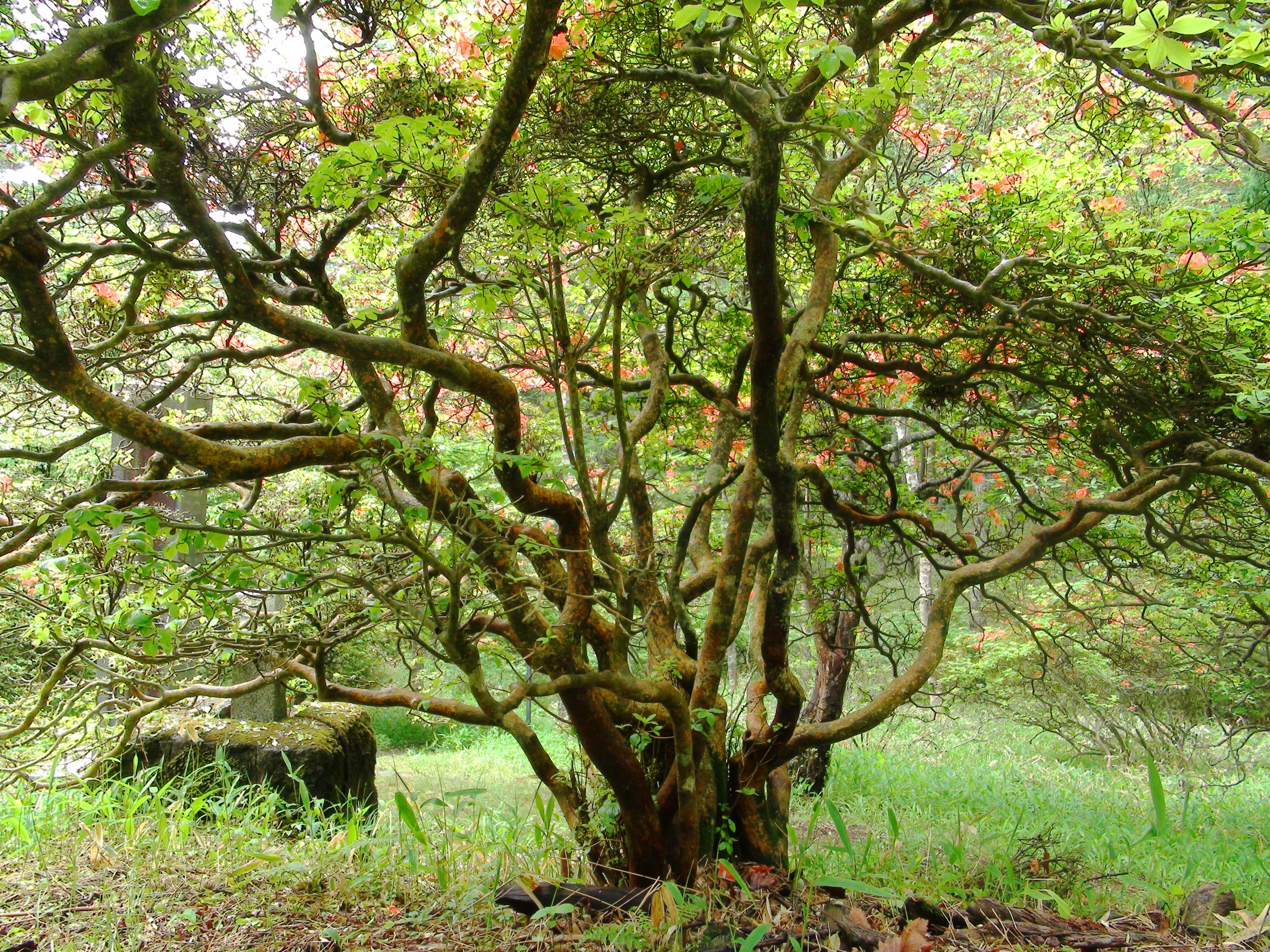 Rhododendron kaempferi Kiyosato highland.B